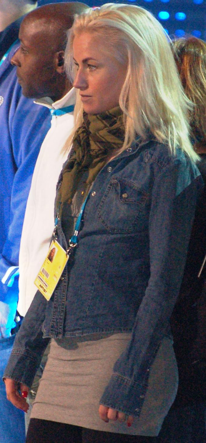 Sofia Berntson at Melodifestivalen in Norrköping